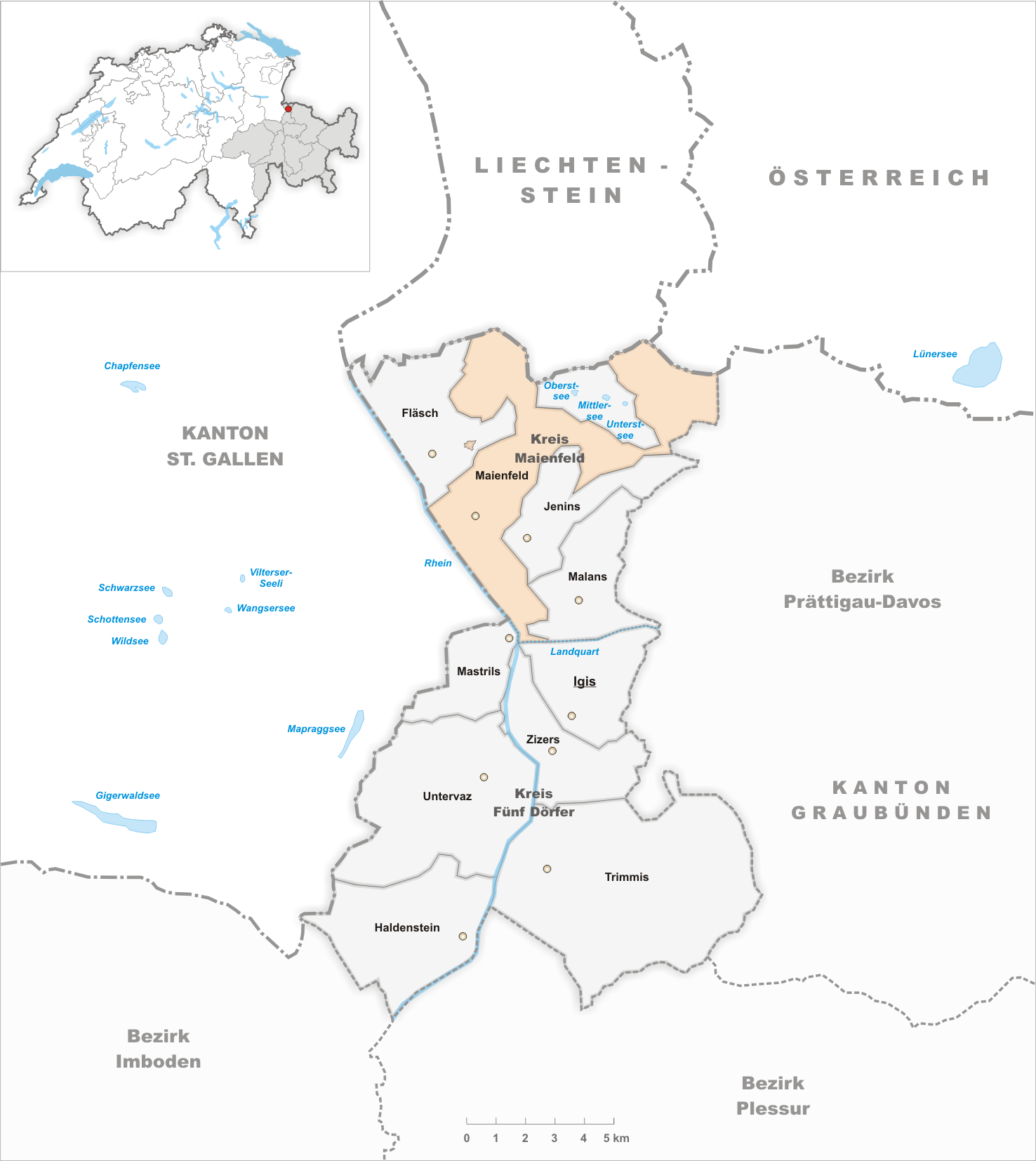 Municipality Maienfeld